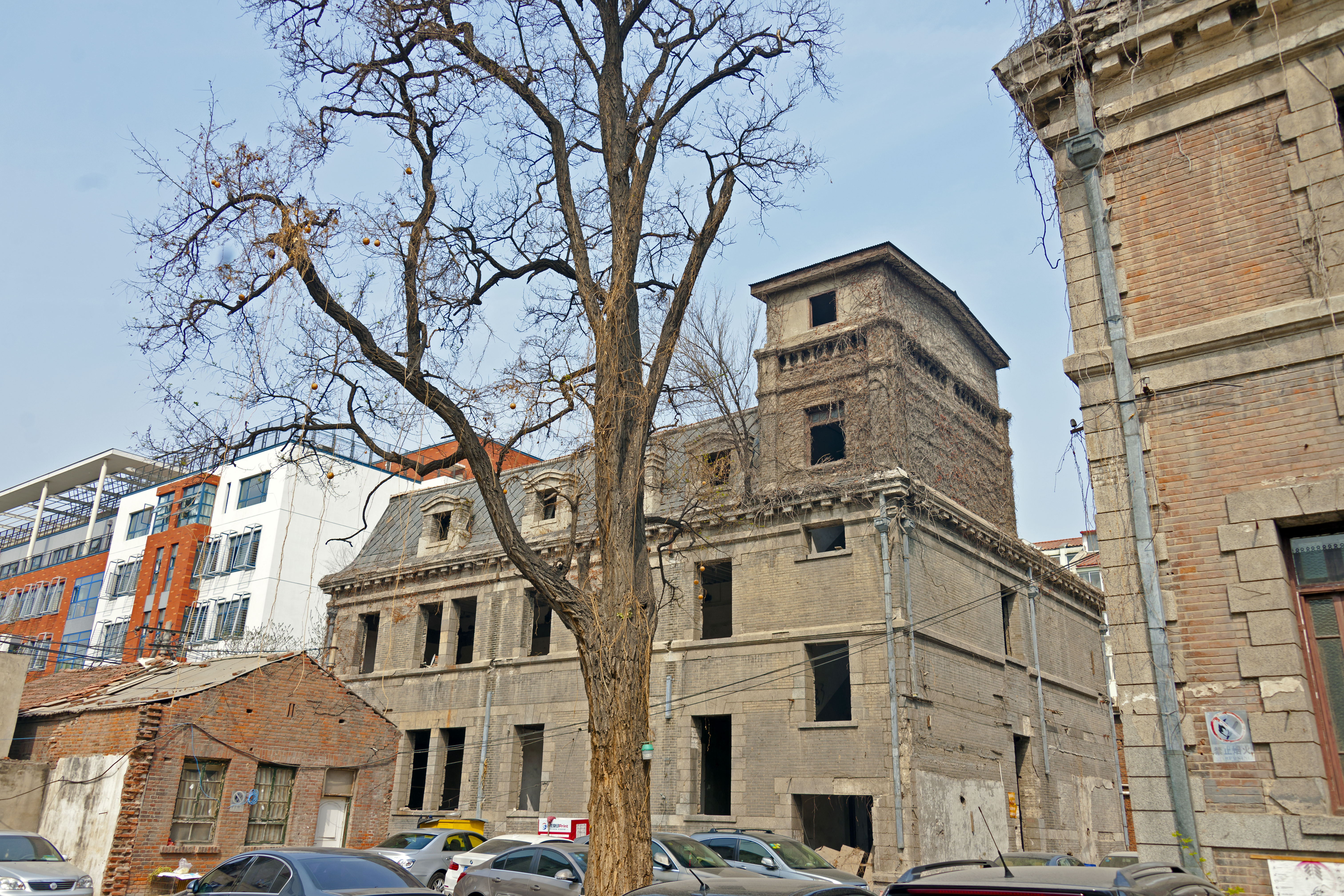 Outbuildings at Chaonei NO. 81, Beijing